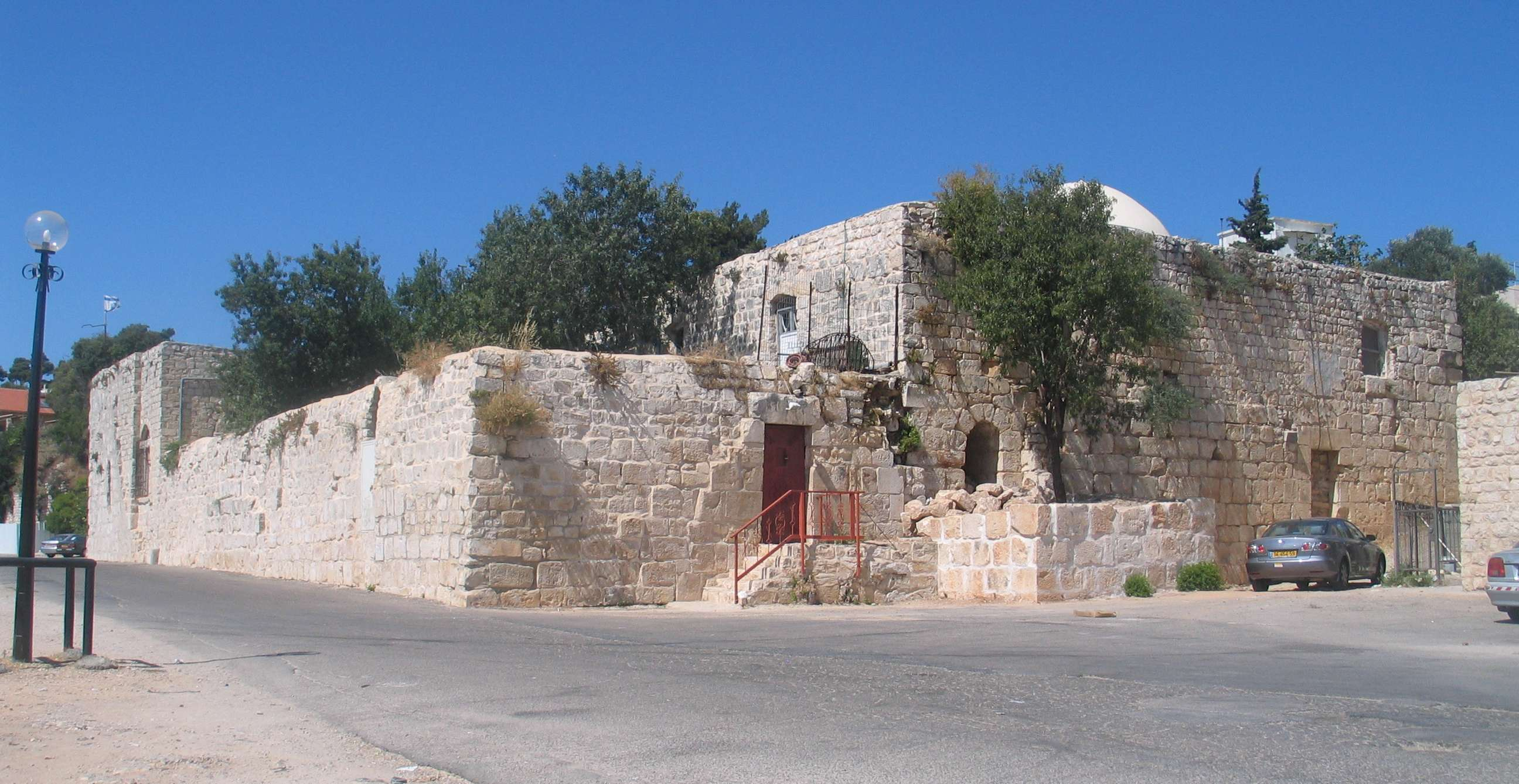 Red mosque, Safed, Israel.